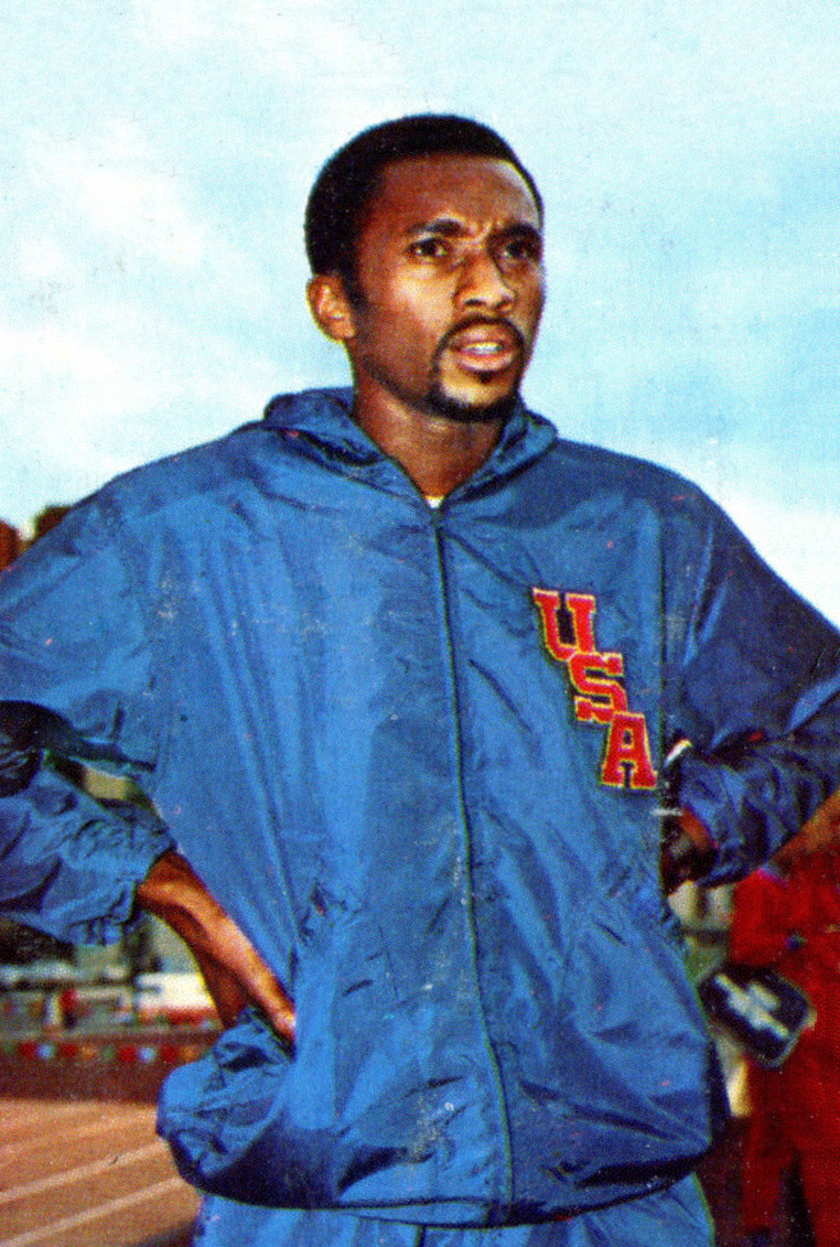 CAMPIONI DELLO SPORT 1969/70-n.12- TOMMIE SMITH (USA)-ATLETICA LEGG